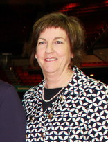 Before the first test match, the Governor-General of New Zealand, Rt Hon Sir Anand Satyanand, and the Governor-General of Australia, Ms Quentin Bryce AC, meet with (from left), Raelene Castle, Chief Executive of Netball New Zealand, Noeleen Dix, President of Netball Australia, and Kate Palmer, Chief Executive of Netball Australia. Photo: Government House Canberra.